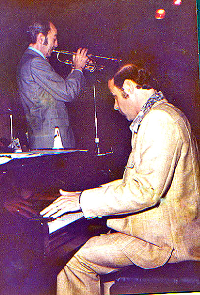 Jazzmen Bobby Hackett and Bubba Kolb at the Village Jazz Lounge in Walt Disney World